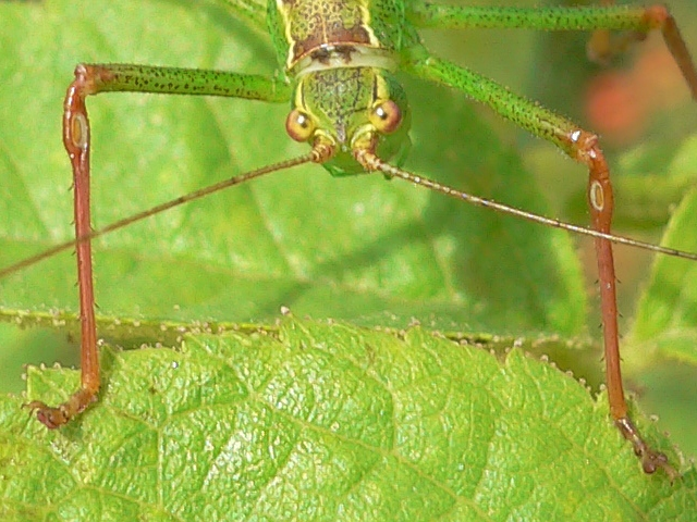 Schlesischer Busch, Alt-Treptow, Berlin, Germany – head an front legs (with "ears") of male Leptophyes punctatissima; image rotated, cropped, sharpened